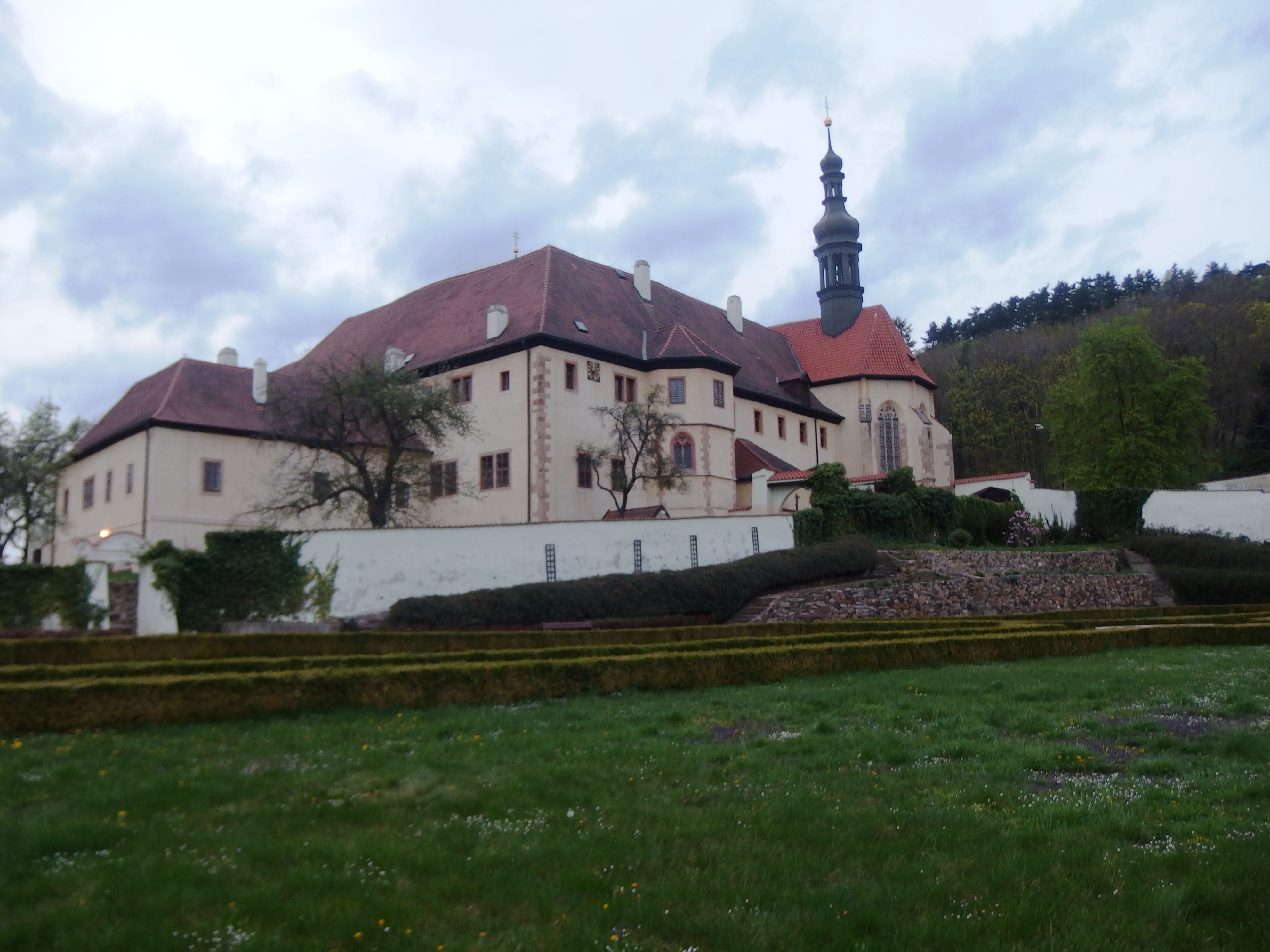 Kadaň, Chomutov District, Czech Republic.